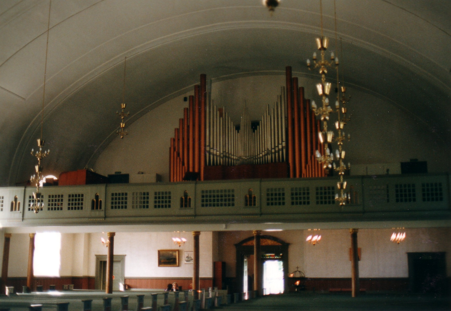 The J. H. Jørgensen Organ in Tune Church, Sarpsborg, South Norway.